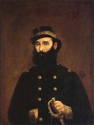 Portrait of former President of Argentina, Bartolomé Mitre